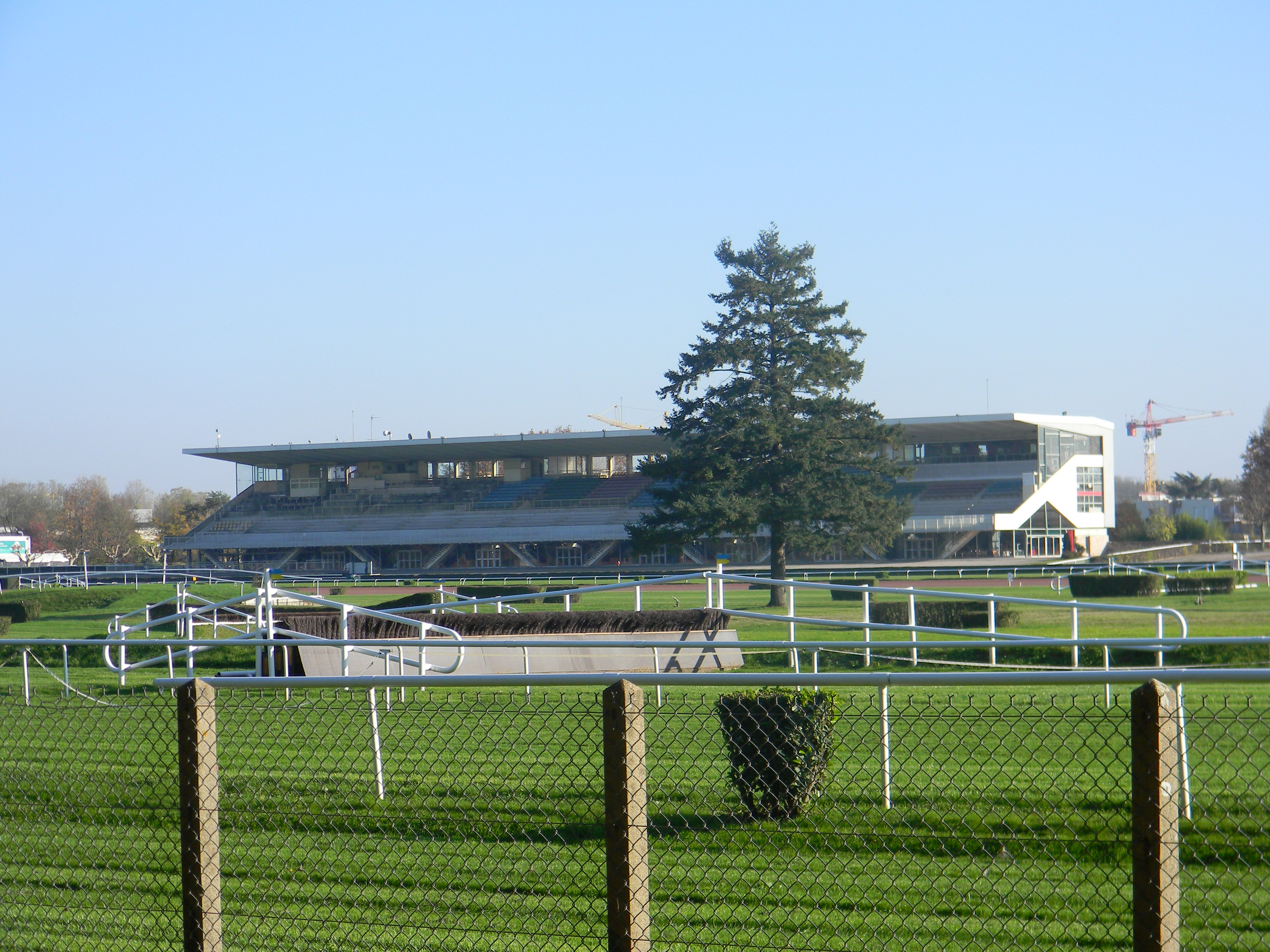 Parilly racecourse in Bron, Rhône, France.